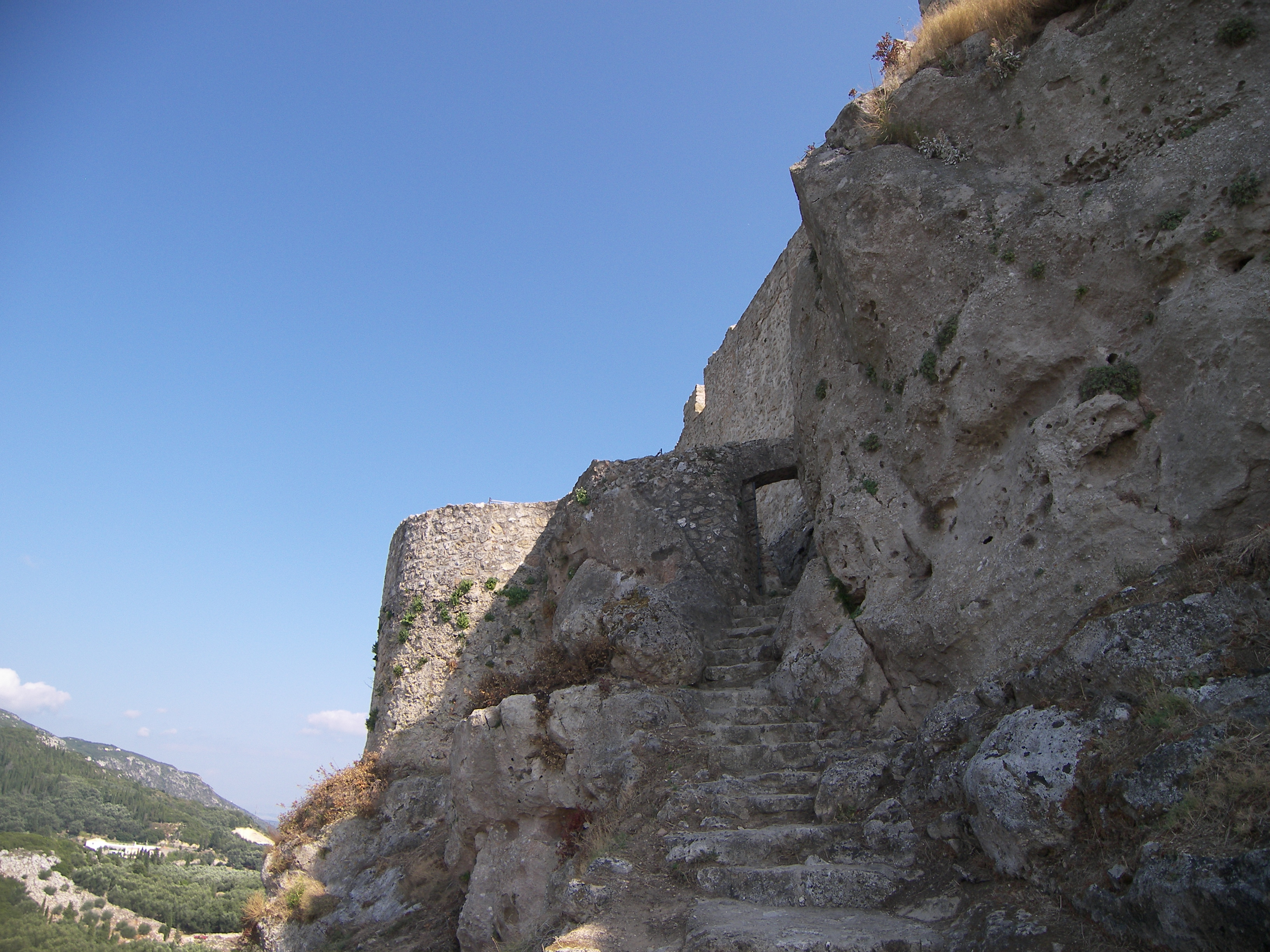 Angelokastro on approach